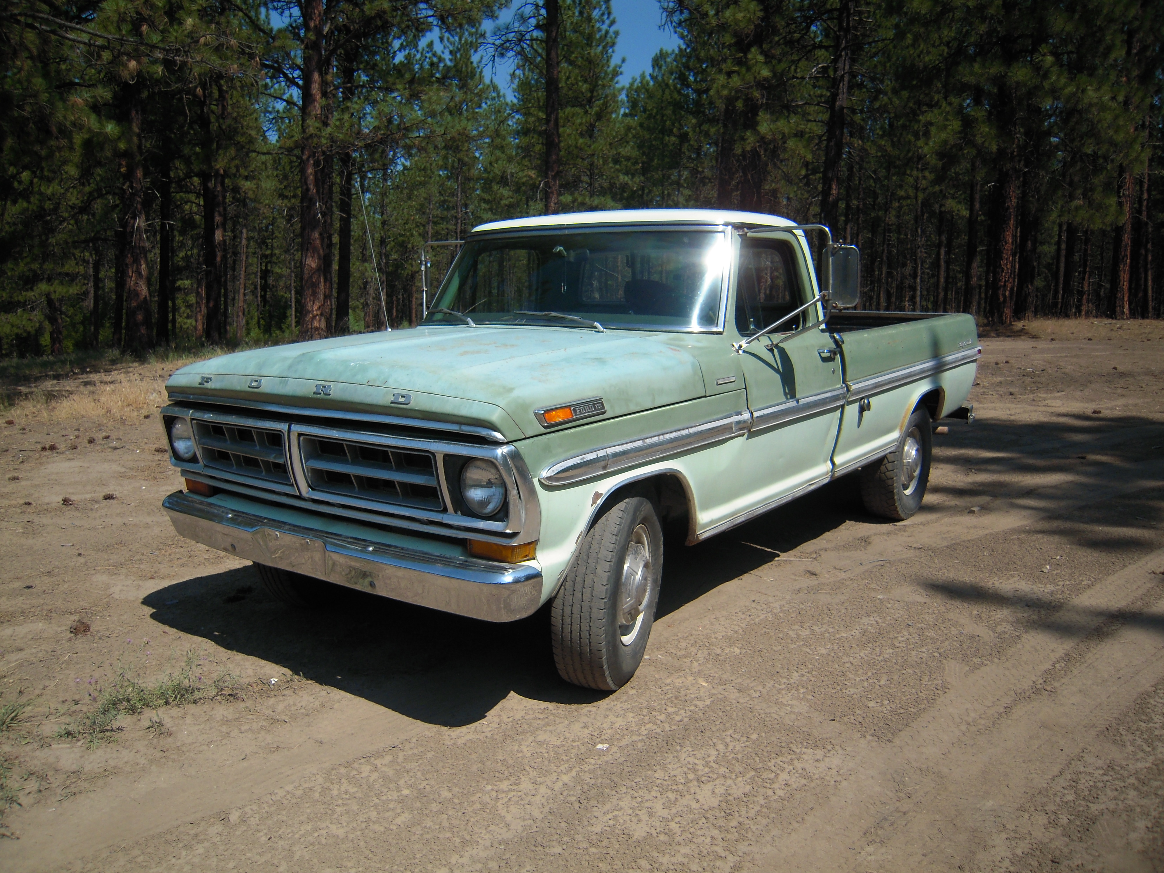 1971 Ford F250 Ranger XLT with Camper Special Package and long arm "western style" mirrors.